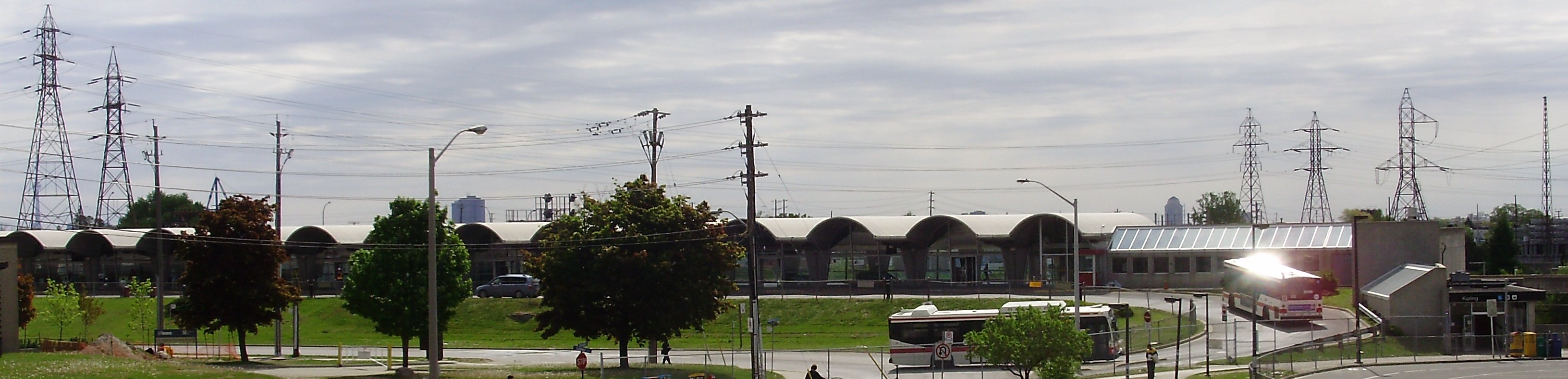 Two buses enter the Toronto Transit's Commission Kipling subway station in Etobicoke, Ontario, Canada.